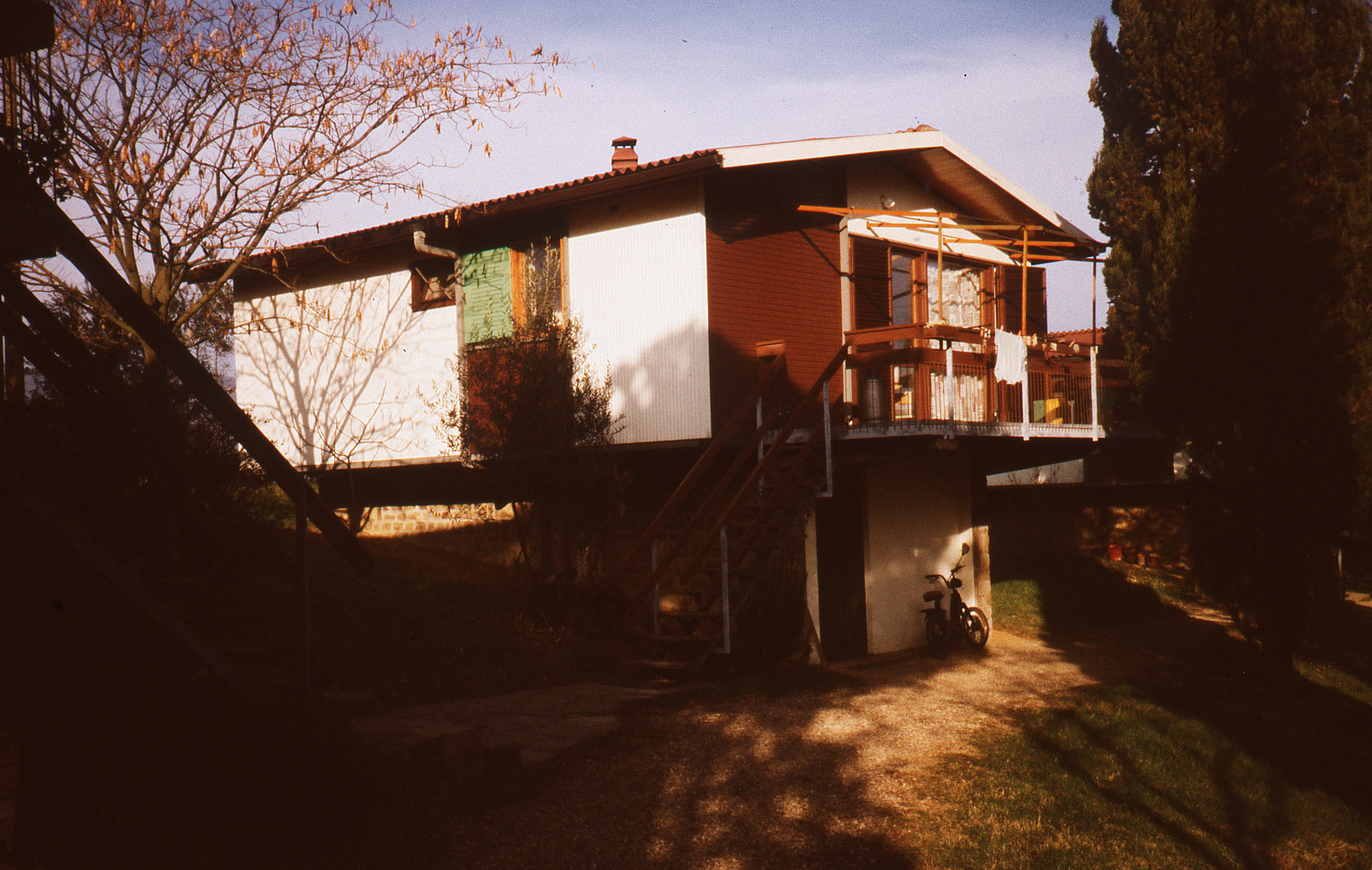 Buildings at Loppiano, center of the Focolare Movement phootographed in 1989